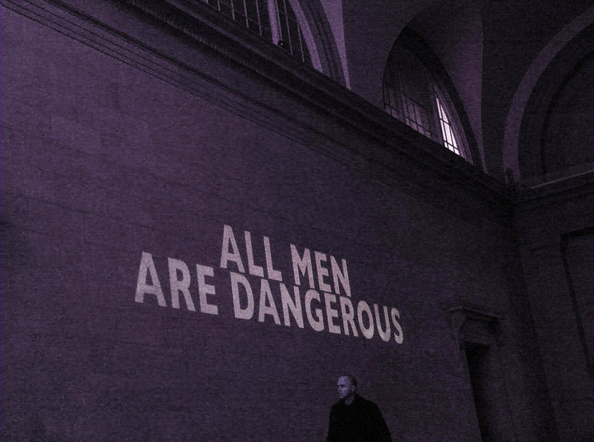 Text projections by public artist Martin Firrell in the Duveen Galleries, Tate Britain, London. Commissioned by Amy Lame and Duckie! Titled 'All Men Are Dangerous' the artwork explored the relationship between masculinity and war.